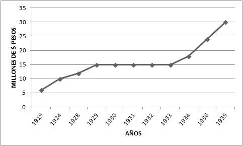 Capital of Bank Osorno and La Unión between 1919-1939.